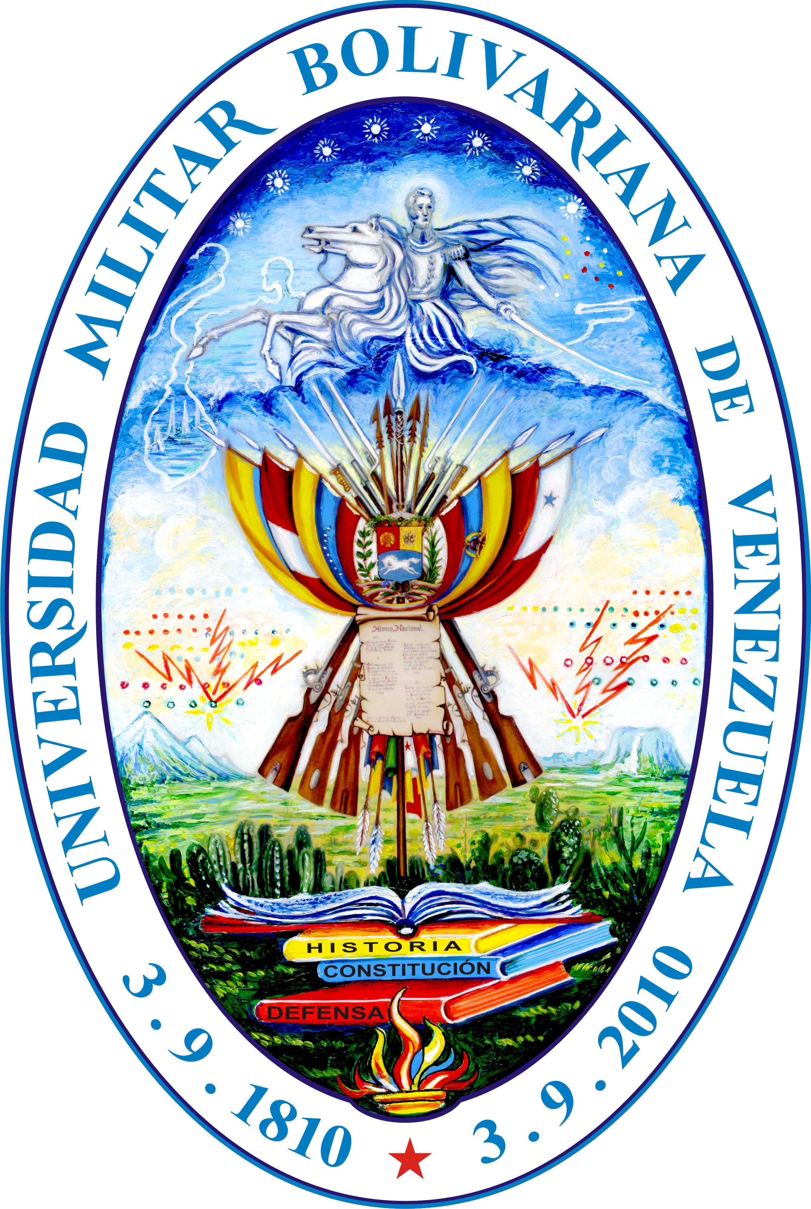 Seal of the UMBV.